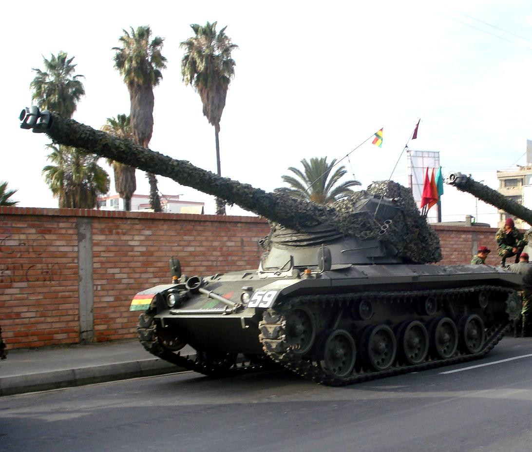 SK105 Krussaider tank in Cochabamba in Bolivia during the military parade commemorating the Independence of Bolivia.